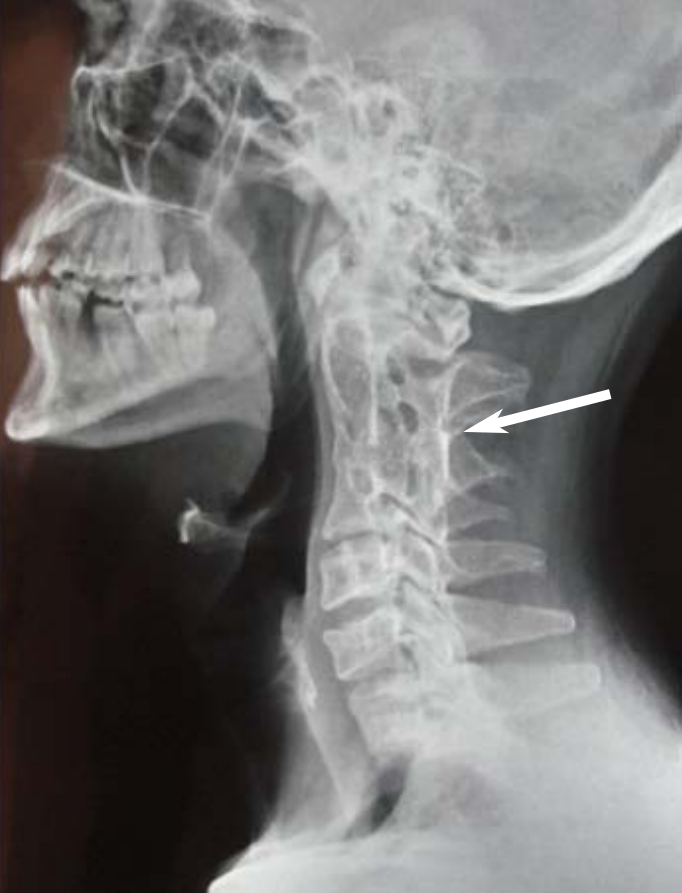 X-ray showing fused cervical vertebrae as seen in Klippel–Feil syndrome